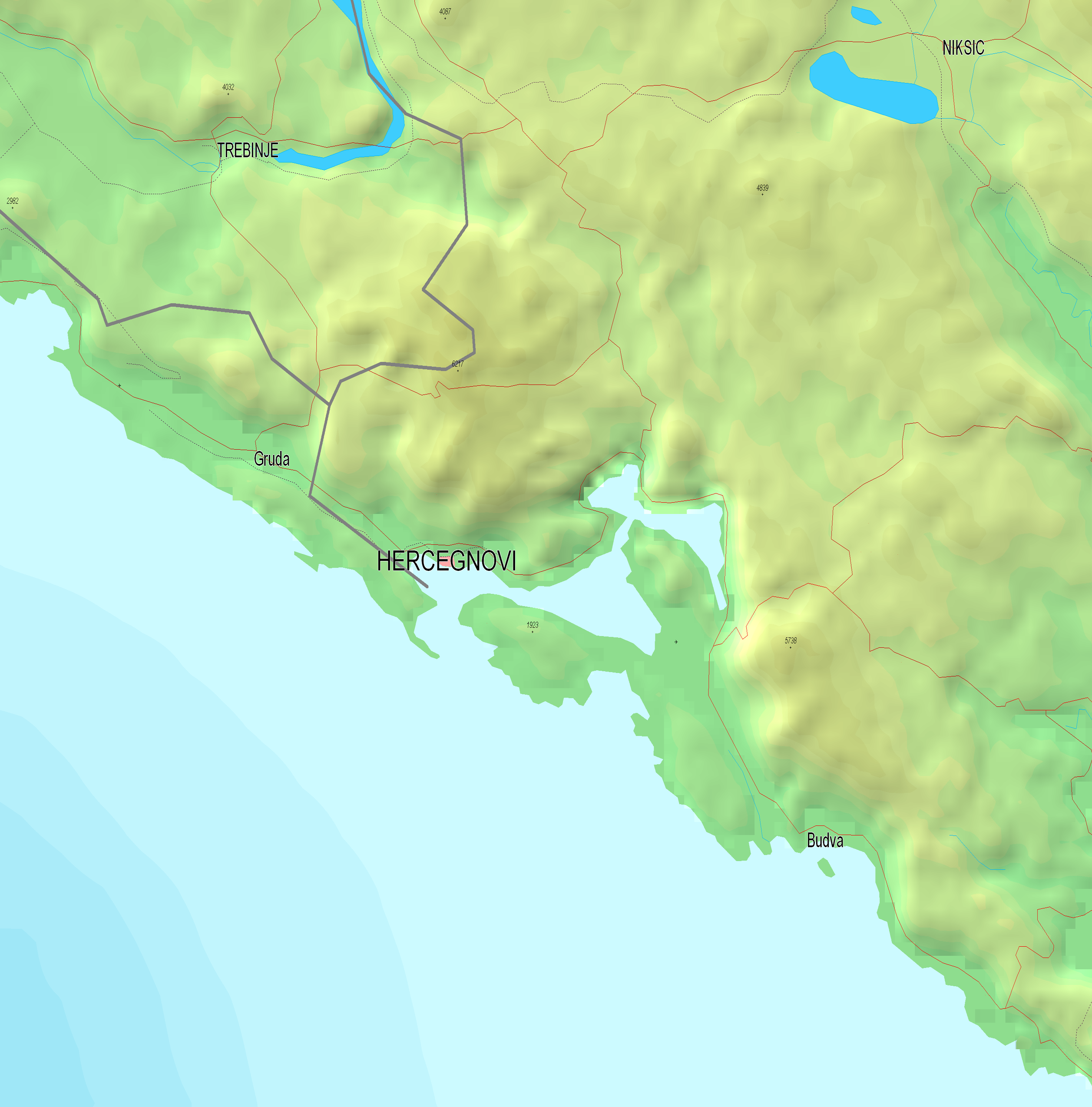 Map of the border region between Croatia and Montenegro. Boka Kotorska Bay.